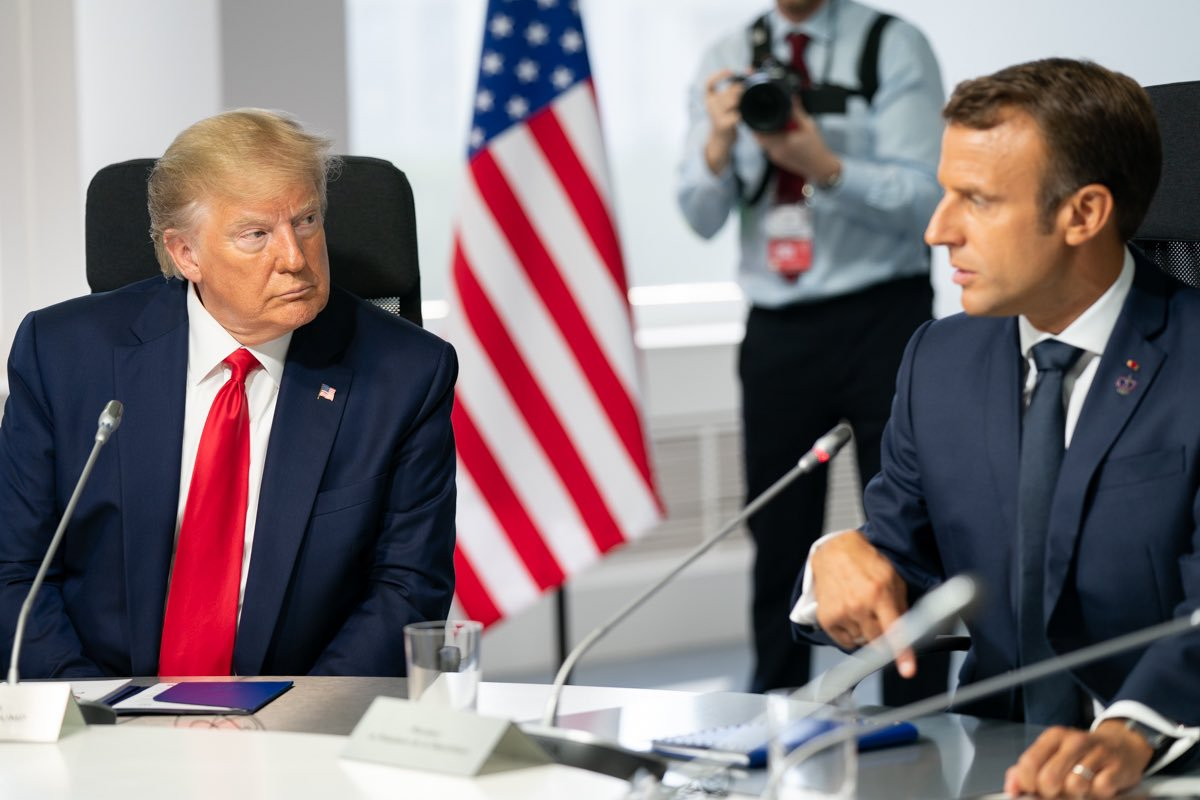 President Donald Trump talks with French President Emmanuel Macron at the G7 Biarritz summit